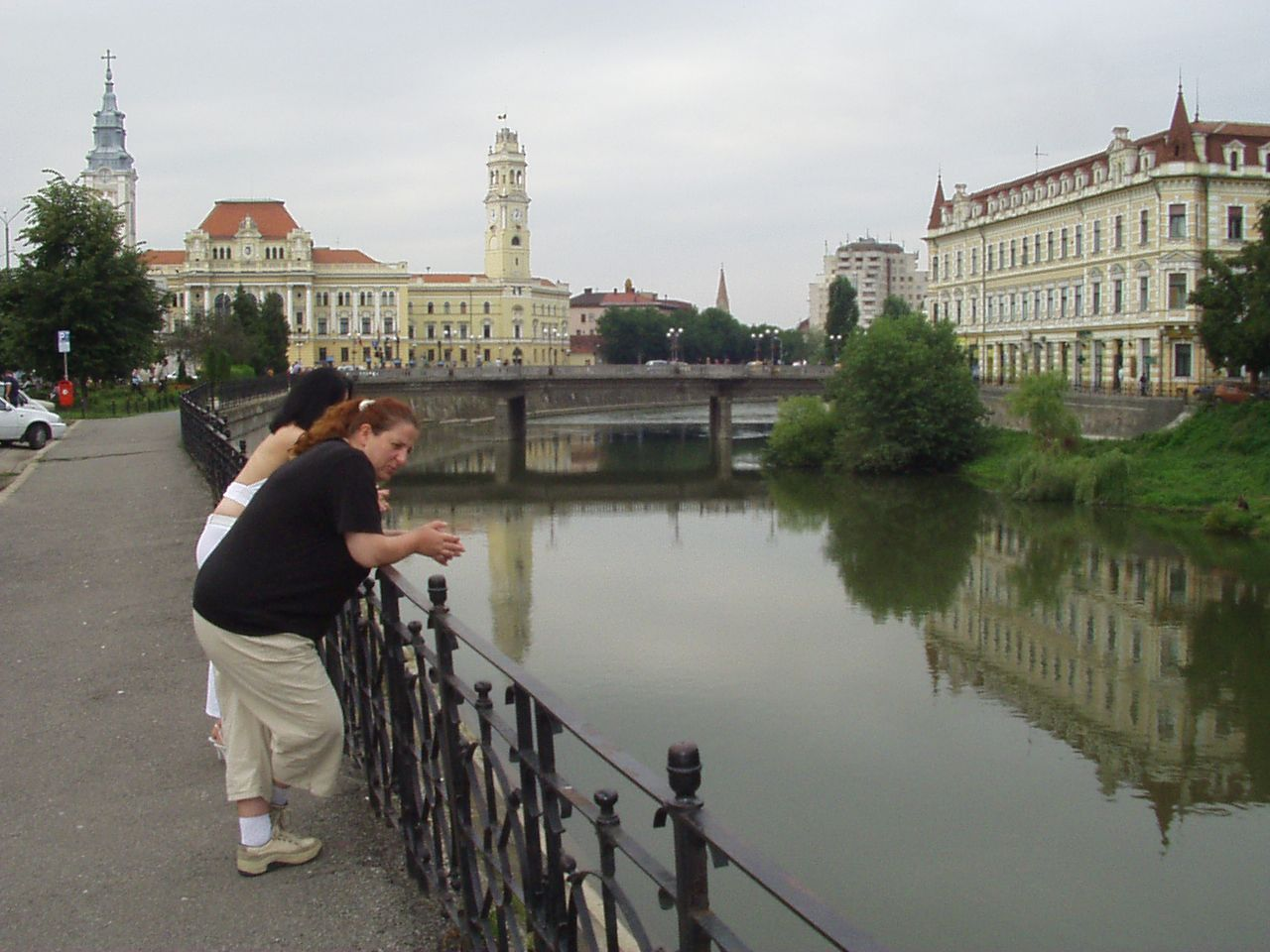 Oradea city centre